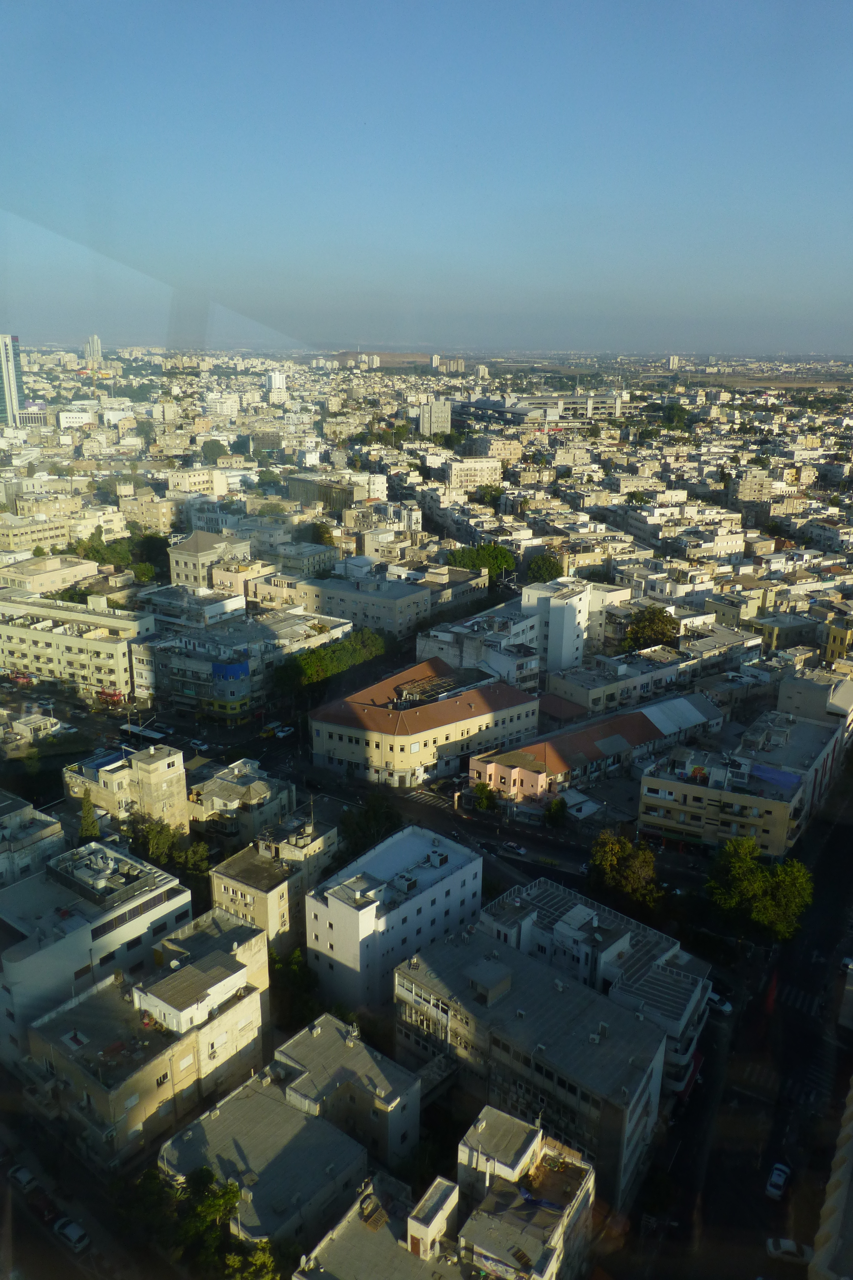 She Codes Hackathon 2015 @Facebook